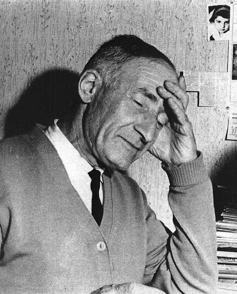 Zvi Preigerzon Main Portrait